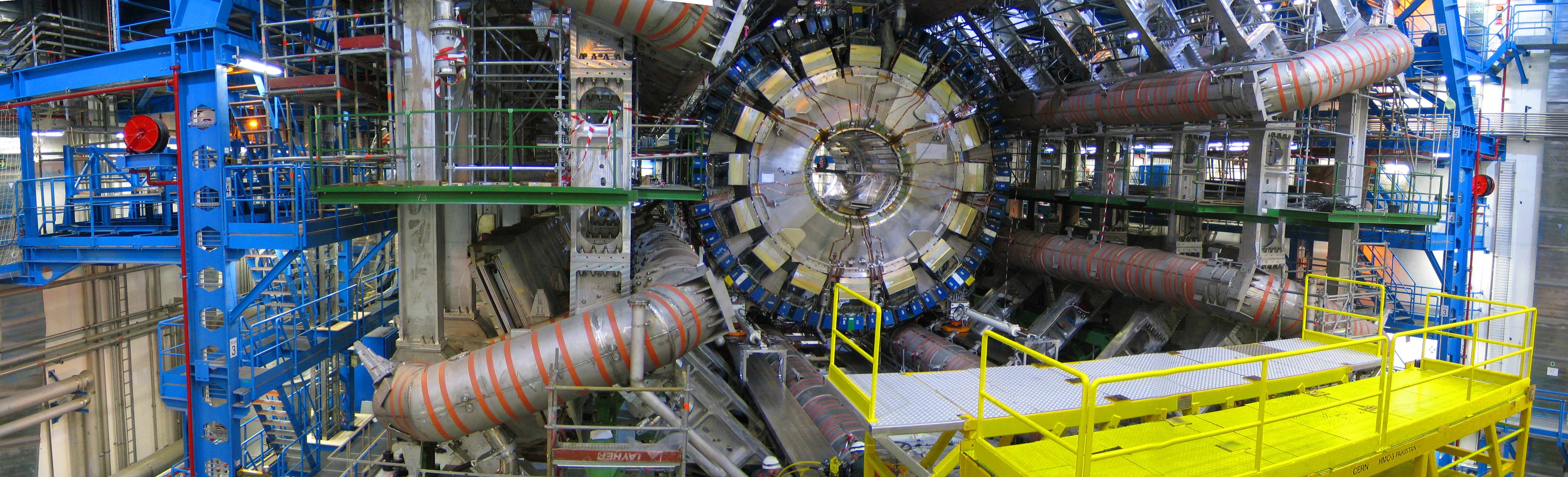 Author: Frank Hommes, Dortmund Taken in the beginning of November 2005. There are three pics merged to one.